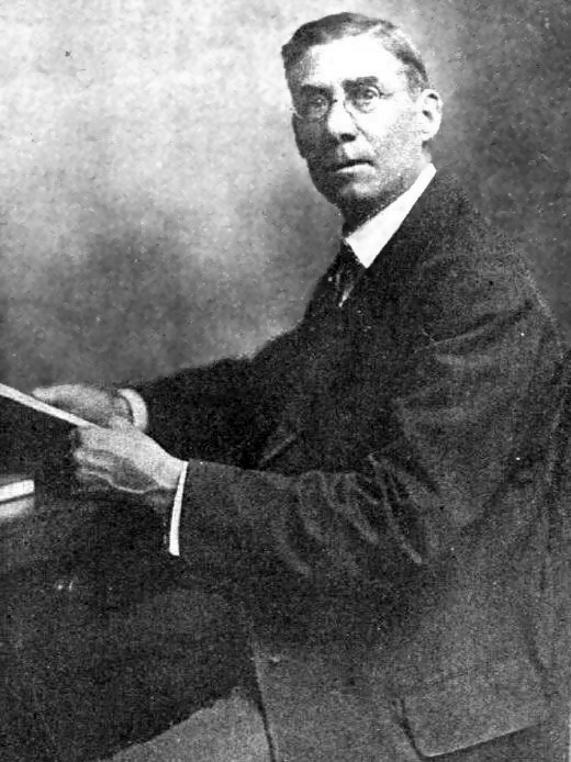 George H. Brimhall, President of Brigham Young University from 1903 – 1921.